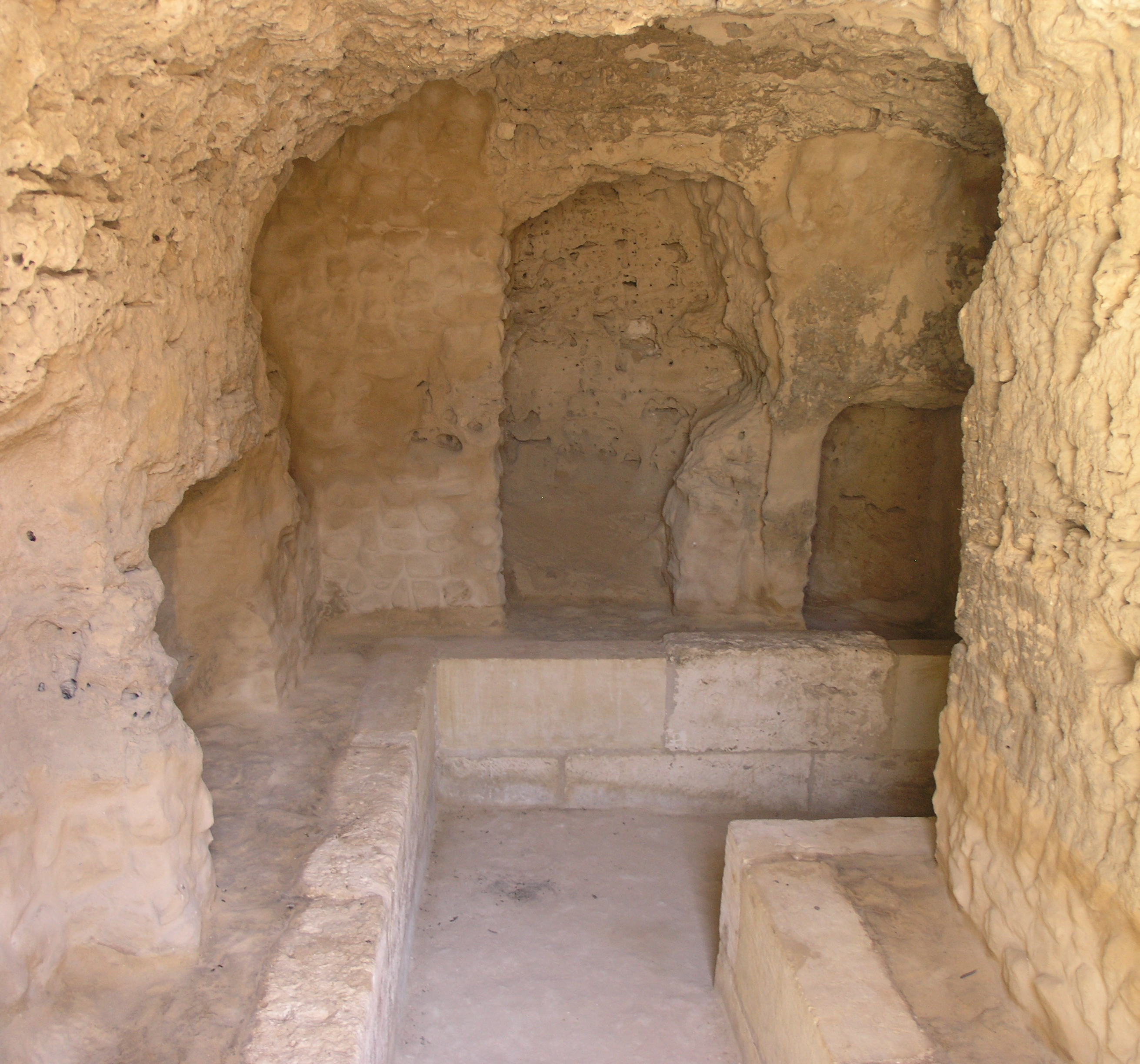 Alexandria - Pompey's Pillar - underground room.